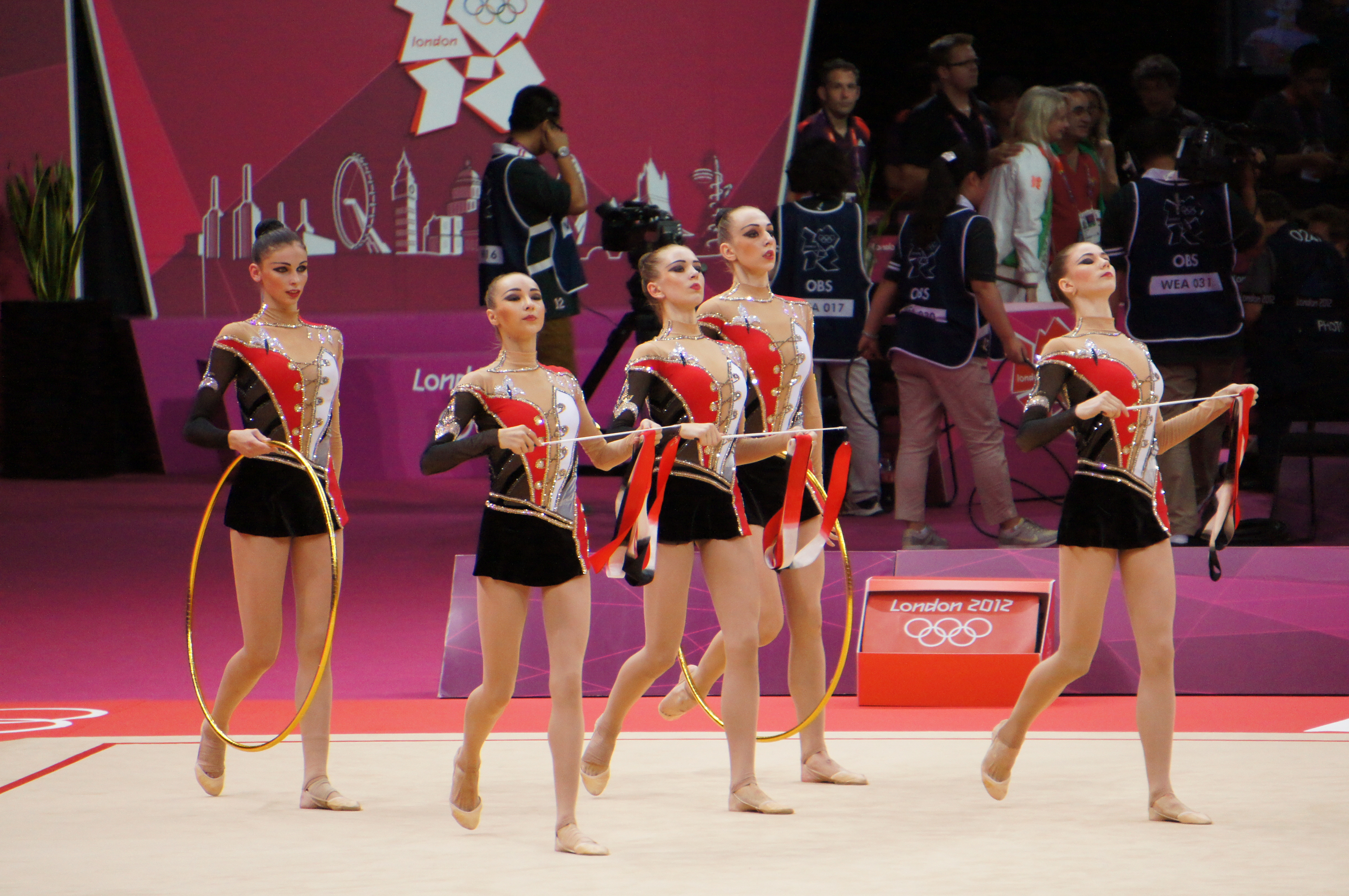 Rhythmic Gymnastics at the Olympic Games in London 2012.